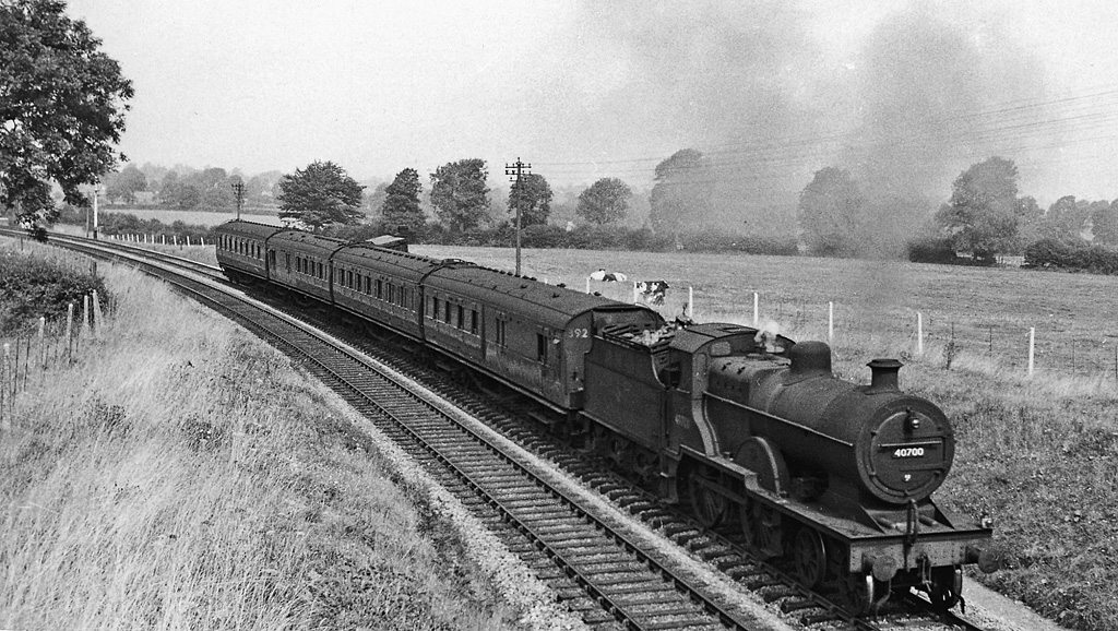 Down S & D train at Masbury Summit. View northward from the B3135 overbridge at the summit of the 8 miles at 1-in-50/60 from Radstock, LMS 2P 4-4-0 No.40700 heads the 13.10 stopping train from Bath (Green Park) to Templecombe (the northern half of the celebrated S&D Bath - Bournemouth West line, closed in March 1966): the fireman can now rest for the next 8 miles to Everecreech Junction. A peaceful rural scene in the Mendip Hills.